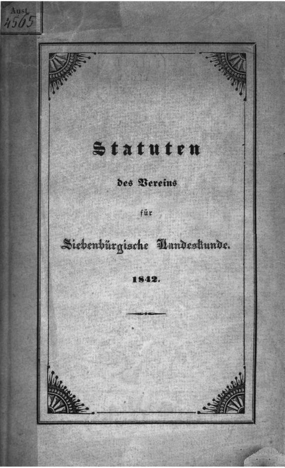 Cover of book "Statuten des Vereins für Siebenbürgische Landeskunde"